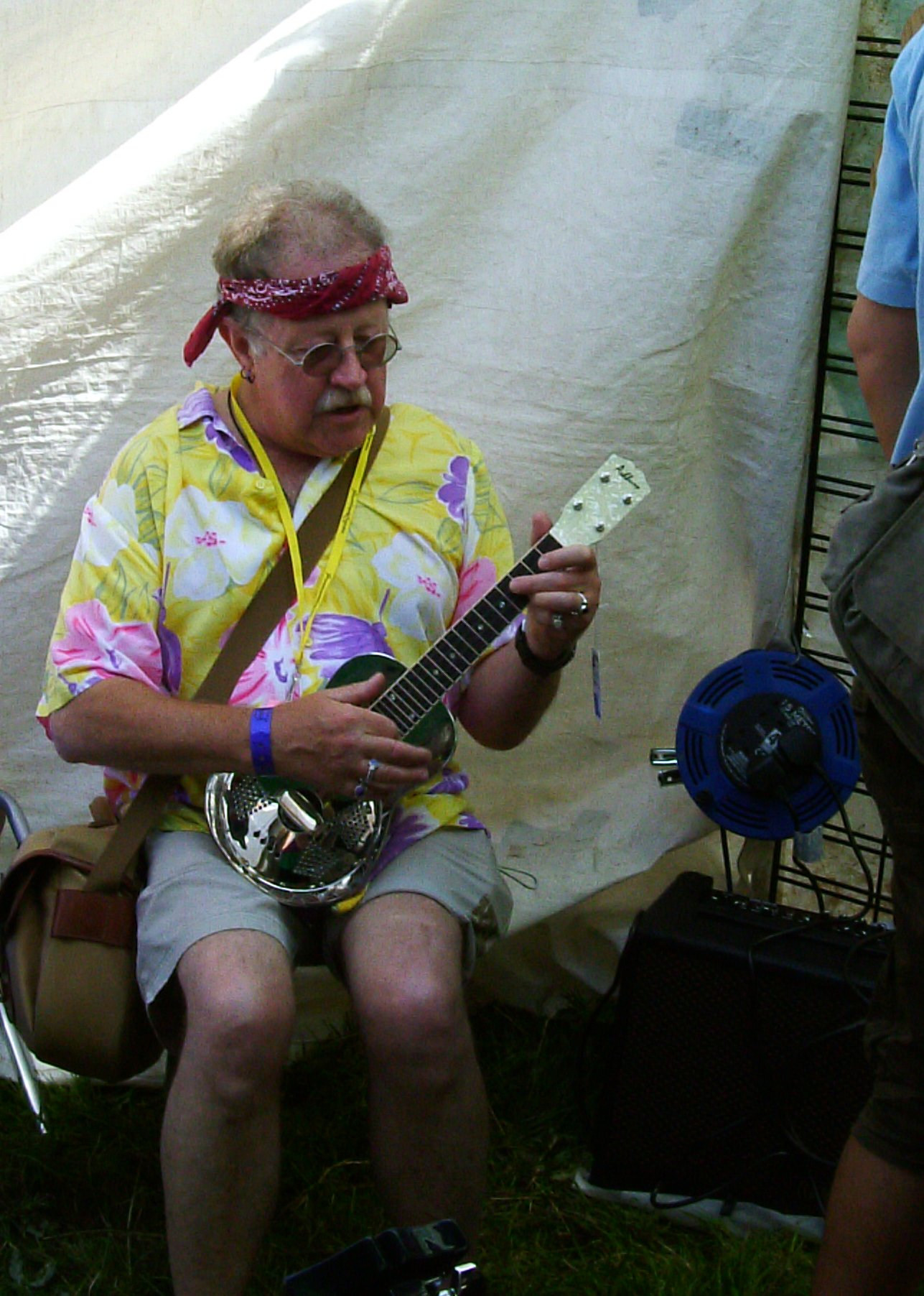 Mike Harding, Comedian, Folk Musician,Writer and DJ, and a really cool old dude!